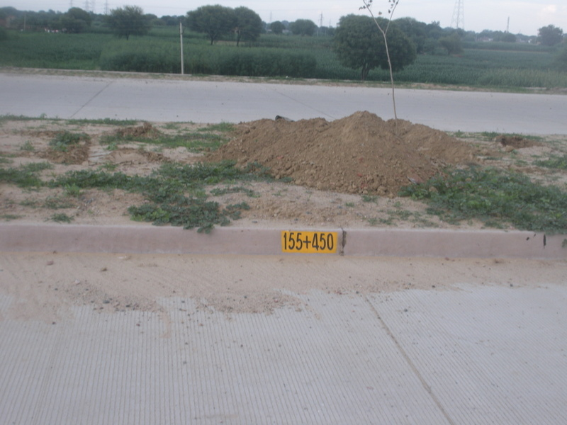 yamuna Expressway 156 mile tarrakpur, agra